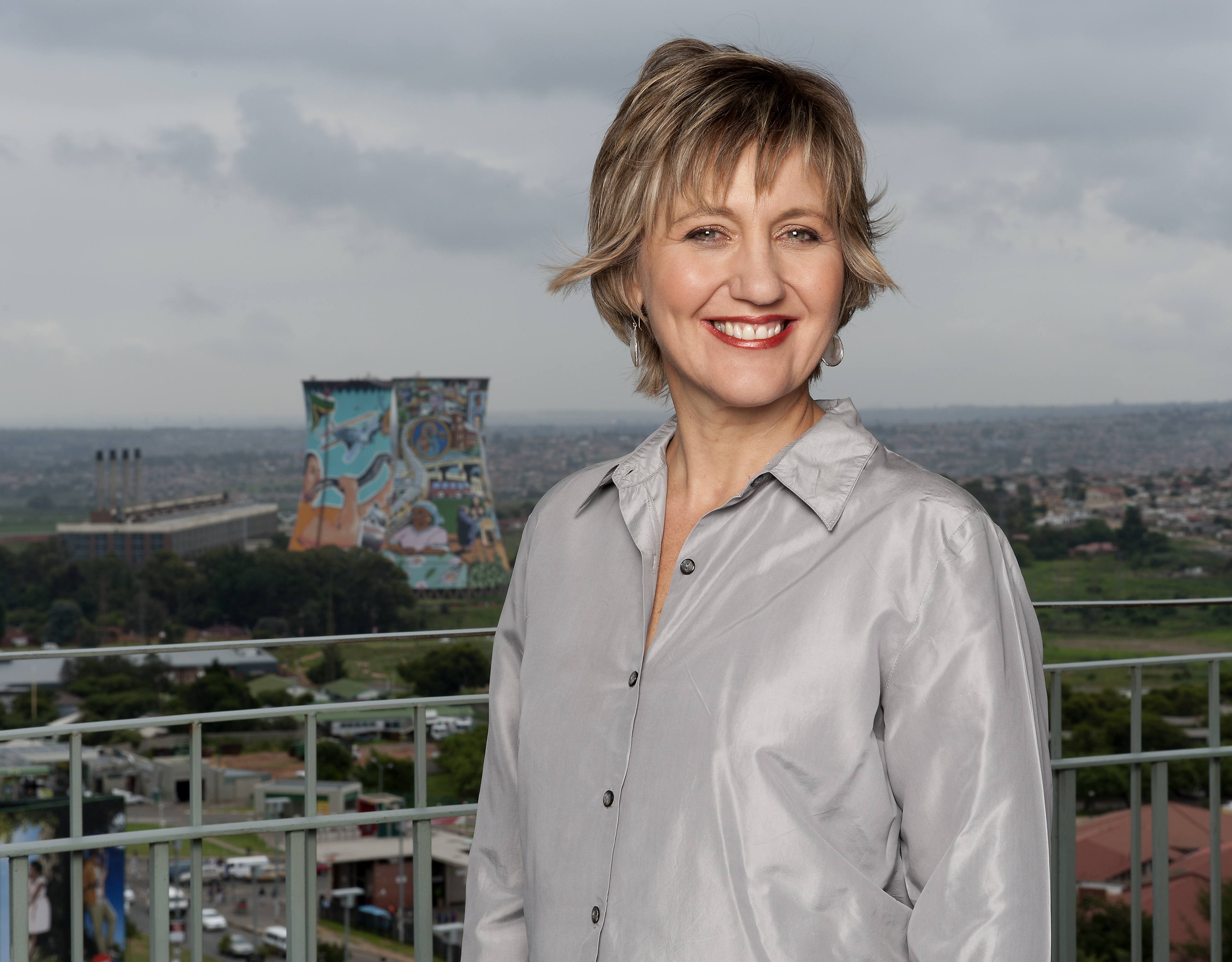 Glenda Gray, South African pediatrician acclaimed for her pioneering work in the prevention of mother-to-child HIV transmission and her visionary leadership of the Perinatal HIV Research Unit, one of Africa's leading HIV prevention and treatment research and clinical-care centres. Spring Convocation recipient (June 12-15)